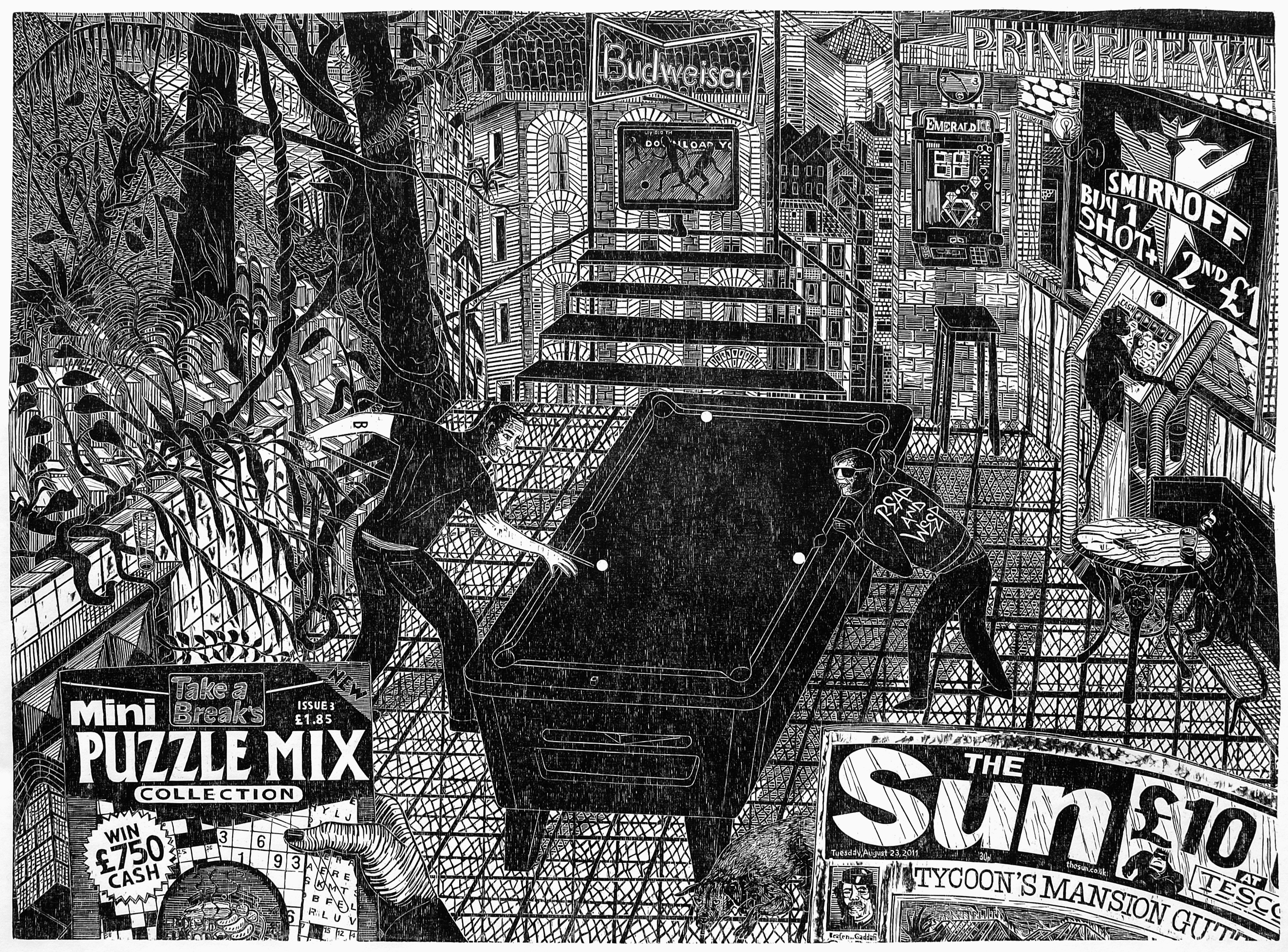 Woodcut by Gabriela Jolowicz, Titel: System of a Clown, year: 2012 size of print: 66,5 x 90,6 cm